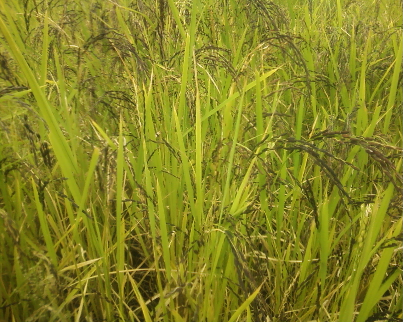 black coloured paddy variety